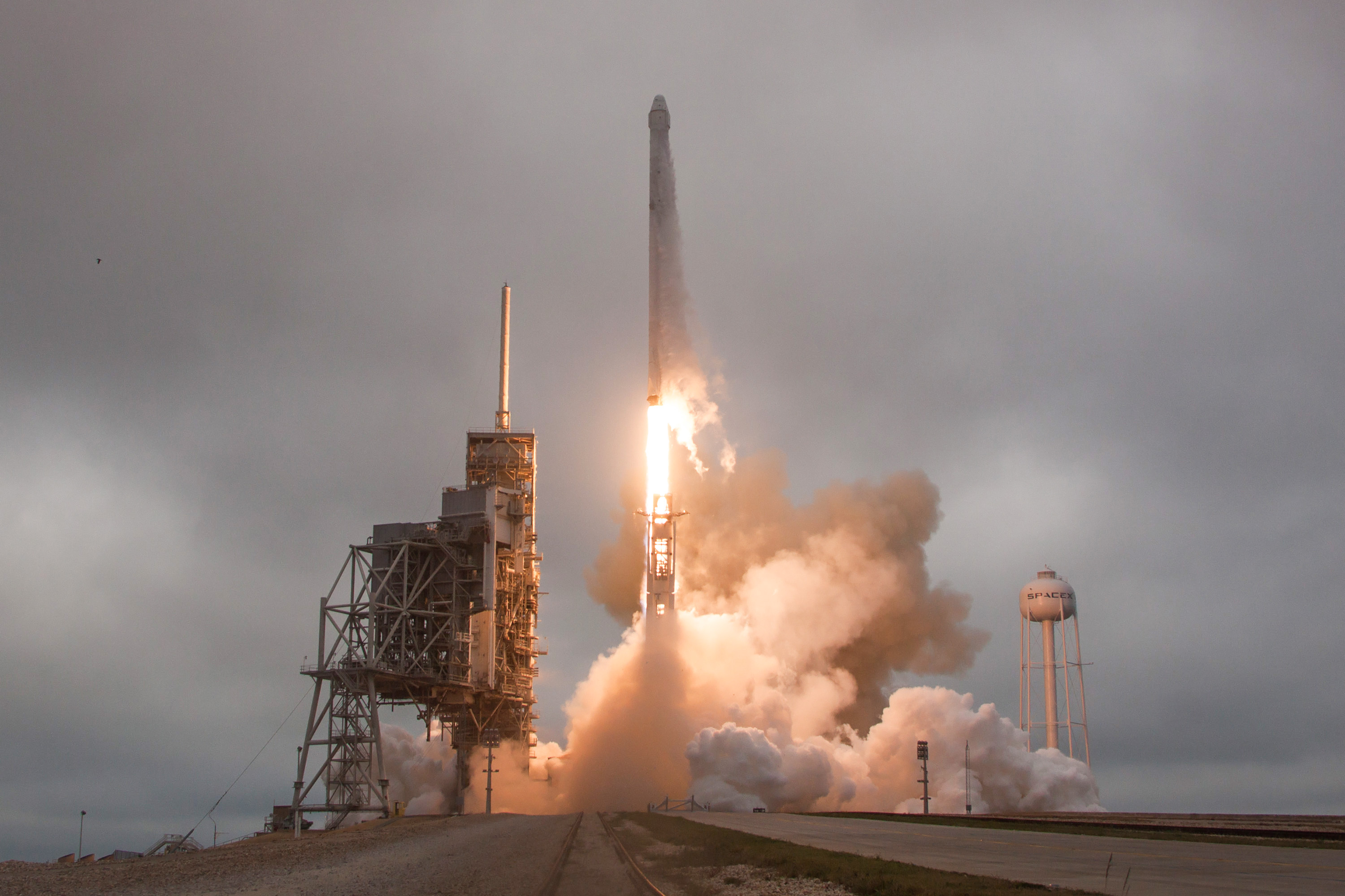 Falcon 9 and Dragon lift off from Launch Pad 39A for CRS-10